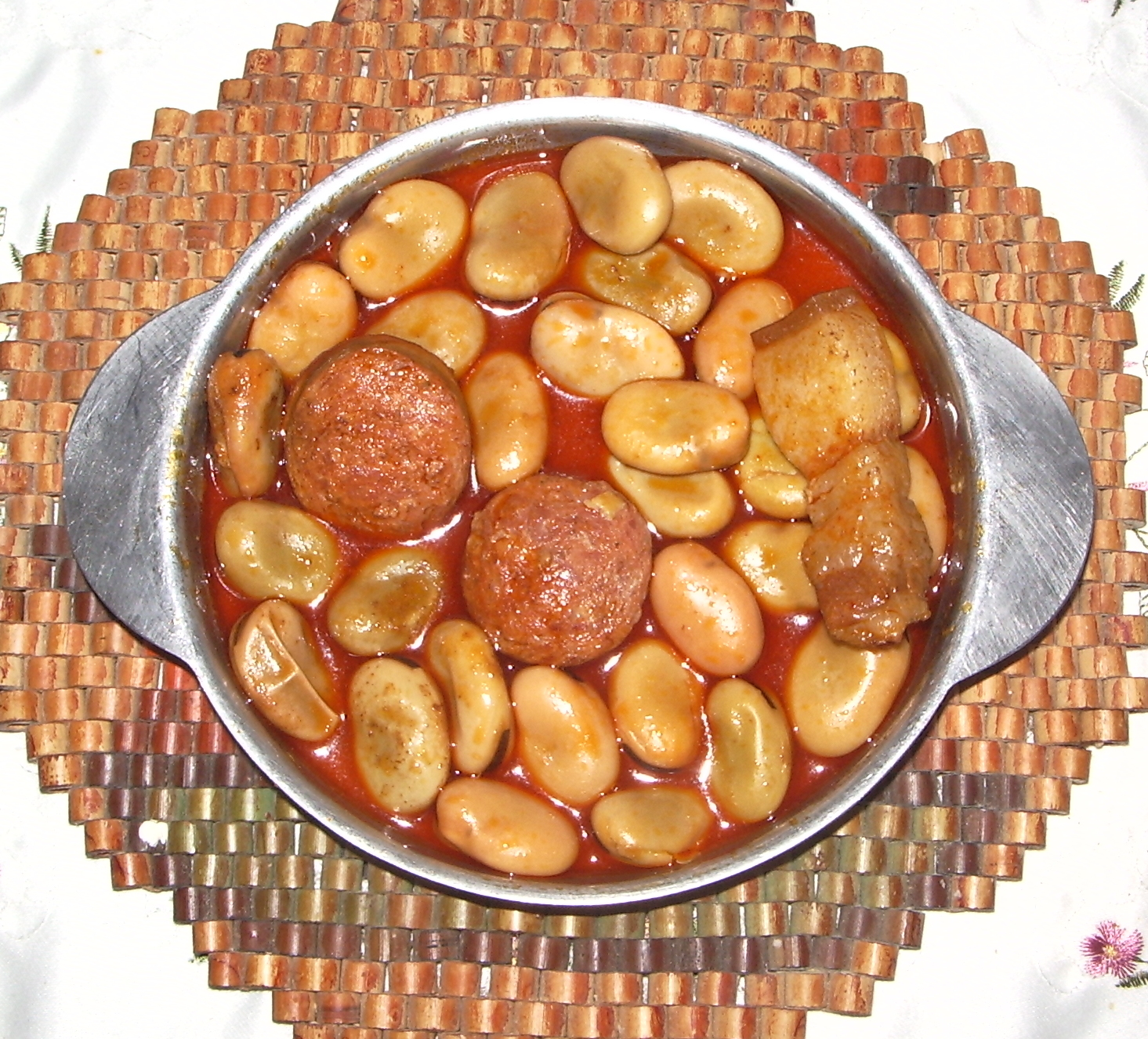 Michirones, A Murcian food.